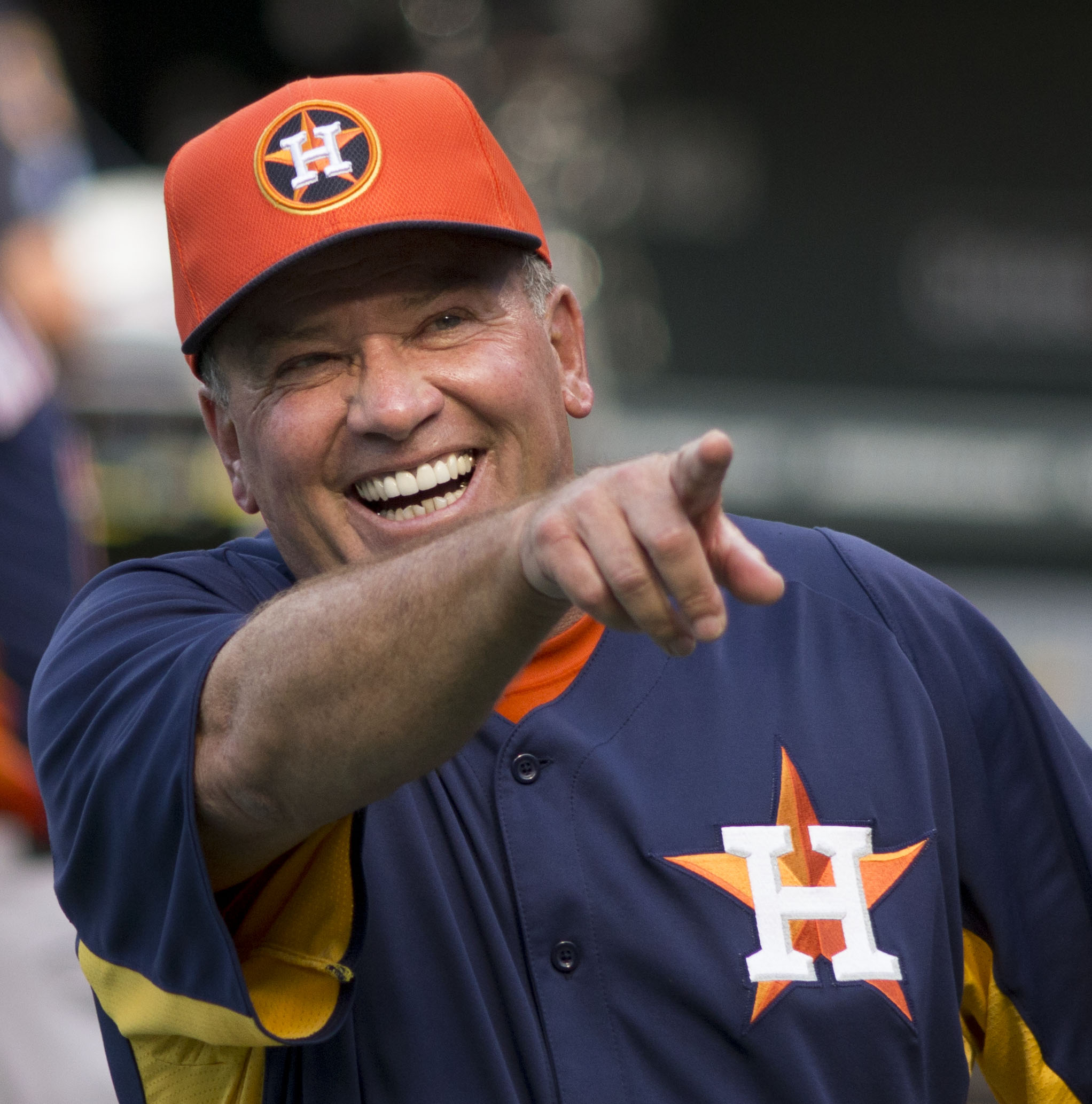 Houston Astros coach Dave Trembley in Baltimore on July 30, 2013.